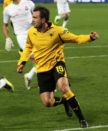 Panagiotis Lagos